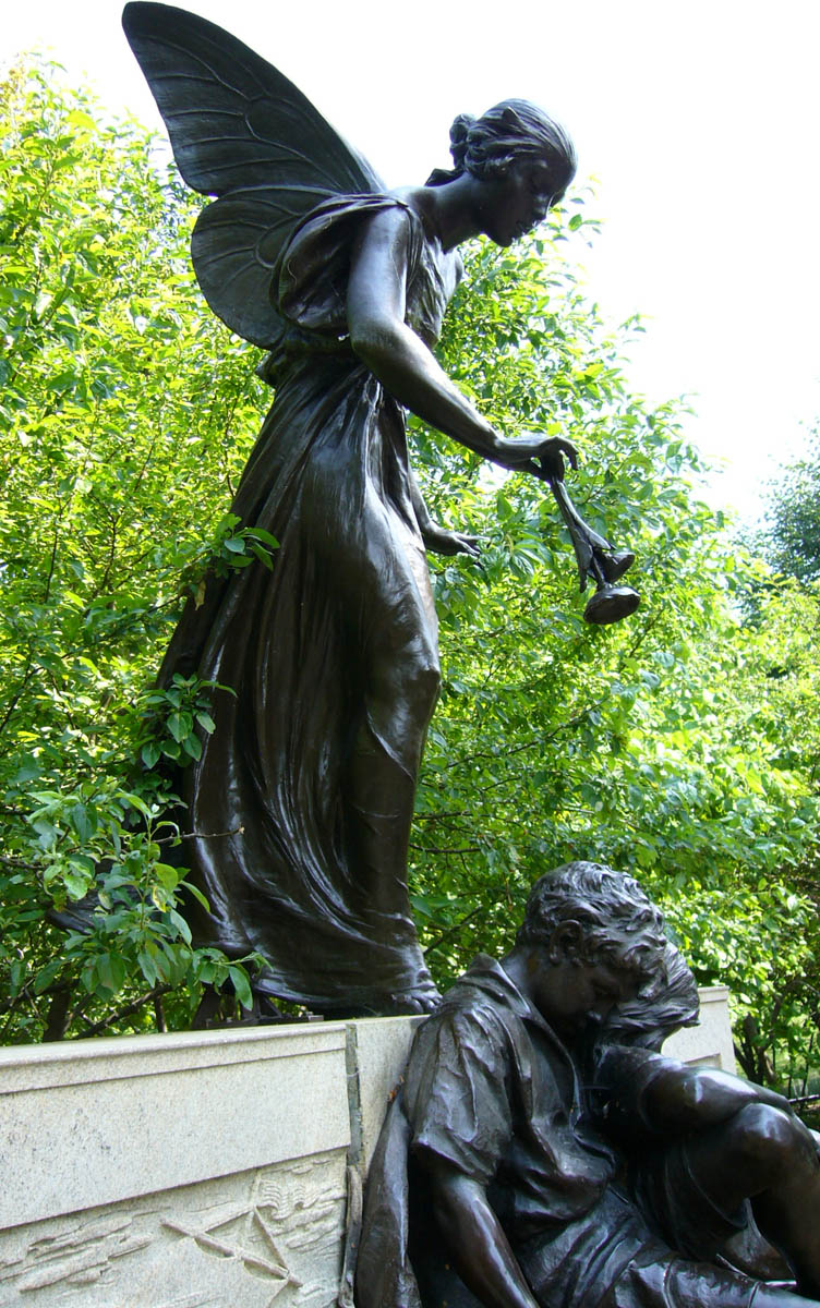 A memorial to Eugene Field, a statue of the "Dream Lady" from his poem, "Rock-a-by-Lady" was erected in 1922 at the Lincoln Park Zoo in Chicago. The sculptor was Edward McCartan